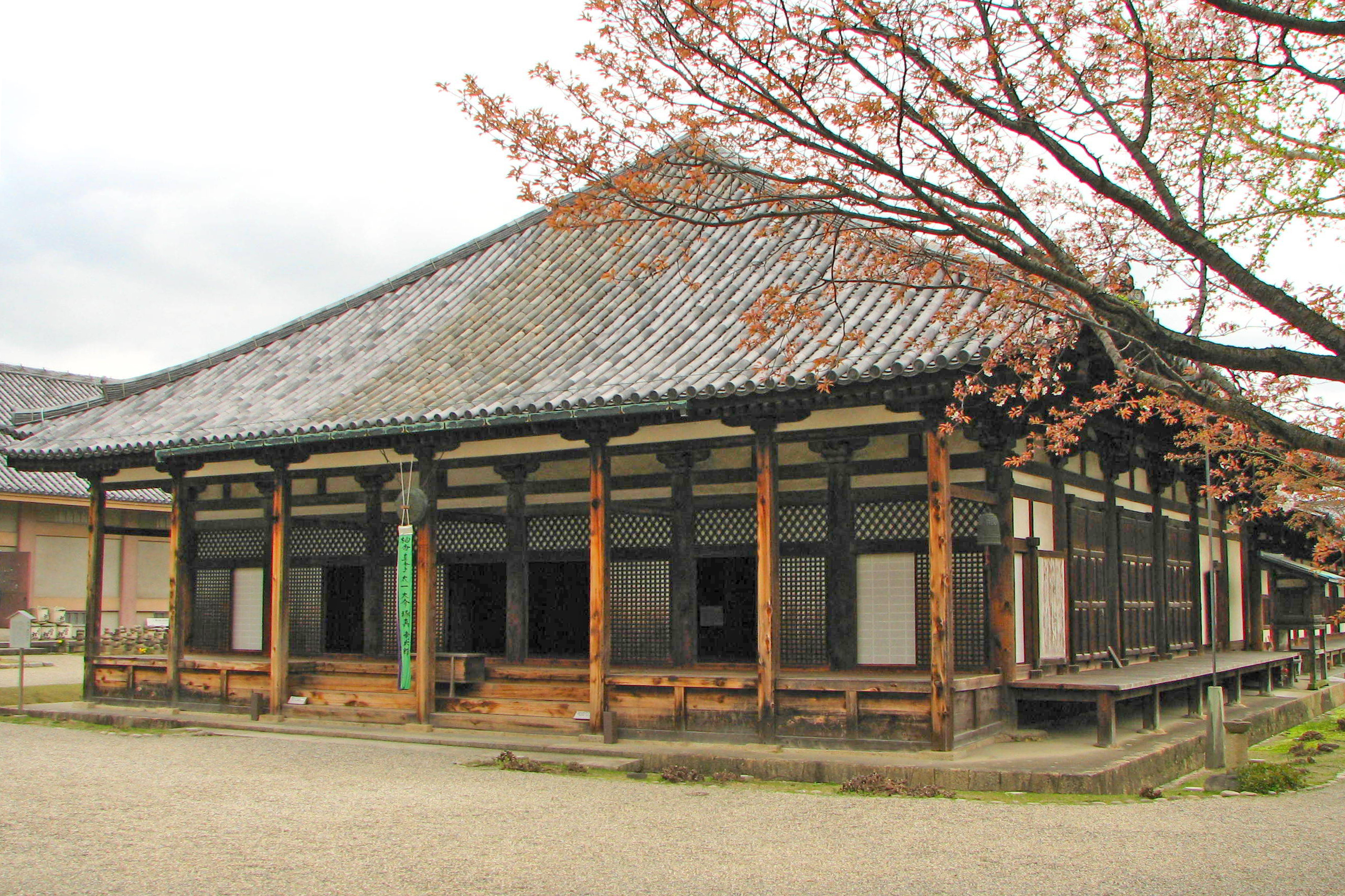 Gango-ji Gokurakubo, Nara, Nara Prefecture, Japan